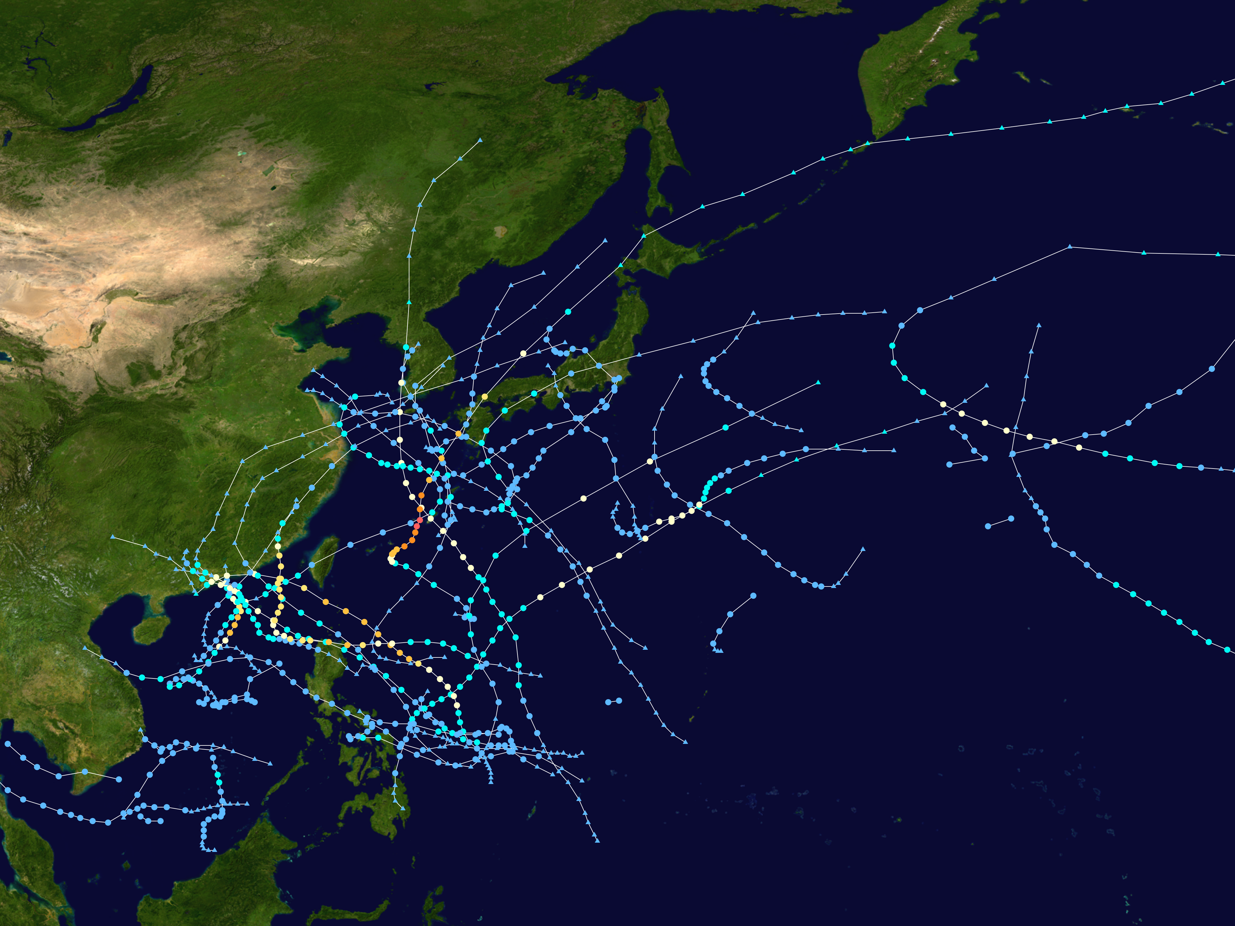 This map shows the tracks of all tropical cyclones in the 1999 Pacific typhoon season. The points show the location of each storm at 6-hour intervals. The colour represents the storm's maximum sustained wind speeds as classified in the Saffir-Simpson Hurricane Scale (see below), and the shape of the data points represent the type of the storm. Map generation parameters: --res 4000 --extra 1 --dots 0.2 --lines 0.04 --xmin 100 --xmax 180 --ymin 0 --ymax 60 Saffir–Simpson scale Tropical depression≤38 mph≤62 km/h Category 3111–129 mph178–208 km/h Tropical storm39–73 mph63–118 km/h Category 4130–156 mph209–251 km/h Category 174–95 mph119–153 km/h Category 5≥157 mph≥252 km/h Category 296–110 mph154–177 km/h Unknown Storm type Tropical cyclone Subtropical cyclone Extratropical cyclone / Remnant low / Tropical disturbance / Monsoon depression